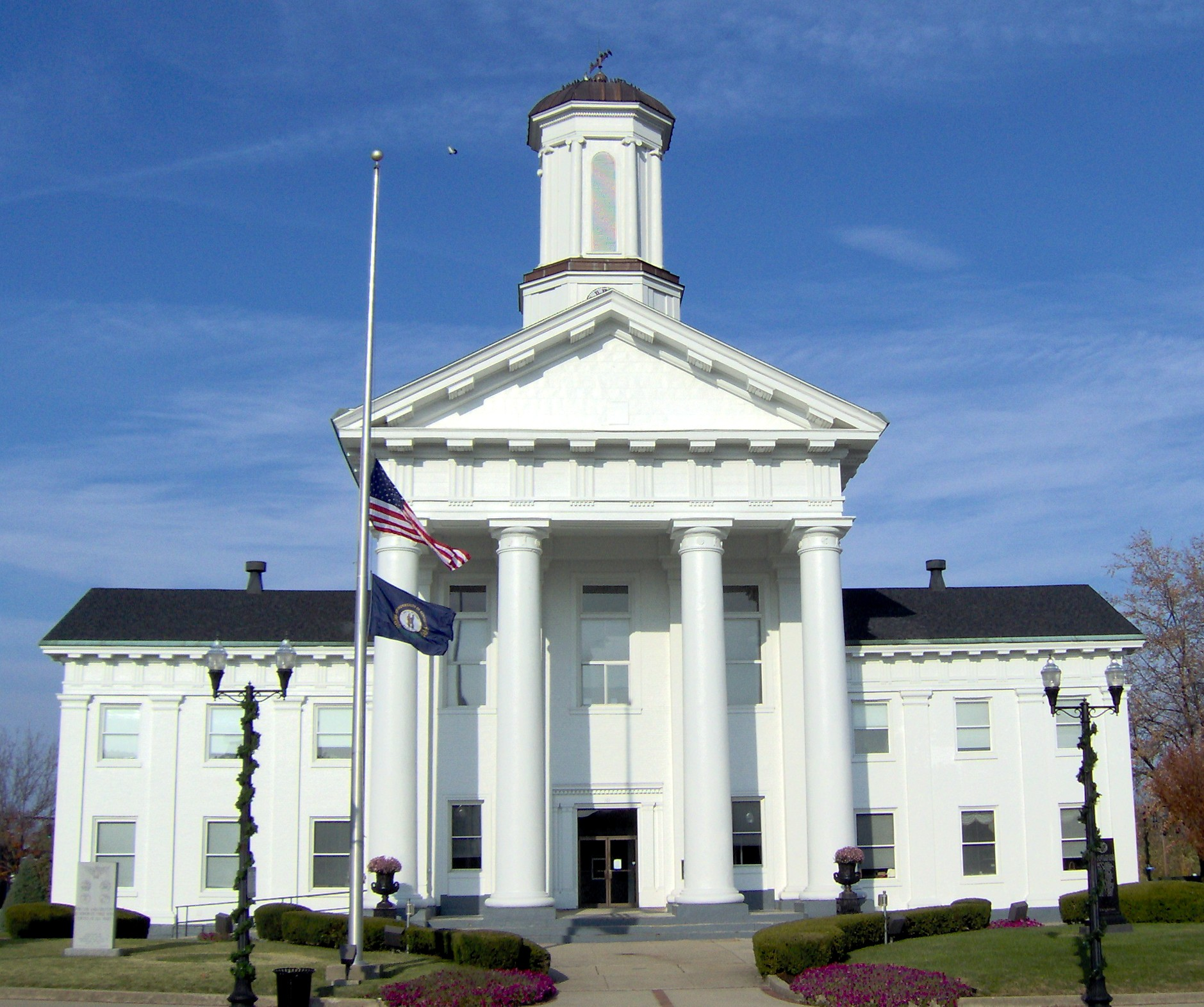 Image of Madison County, Kentucky courthouse located at 101 West Main Street, Richmond, Kentucky.